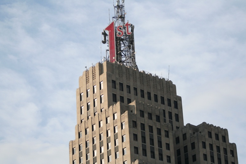 Top of the First National Bank Building